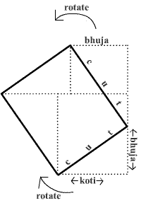 Explanation of the sine rule in the Indian treatise Yuktibhasa.